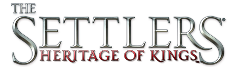 Logo for the 2004 video game The Settlers: Heritage of Kings